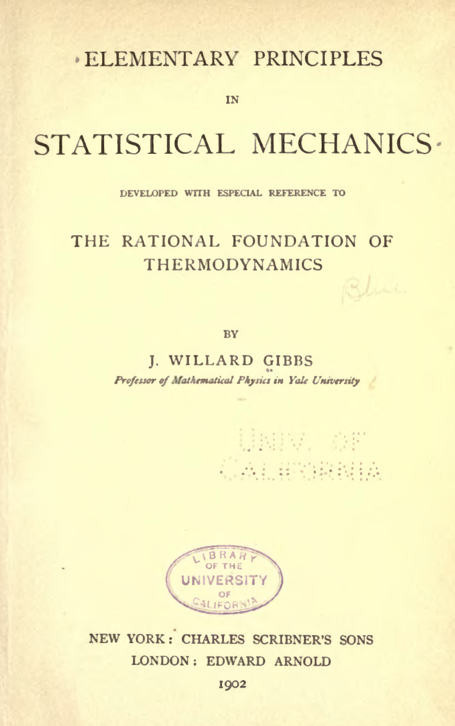 Cover page of "Elementary principles in statistical mechanics" by J. Willard Gibbs